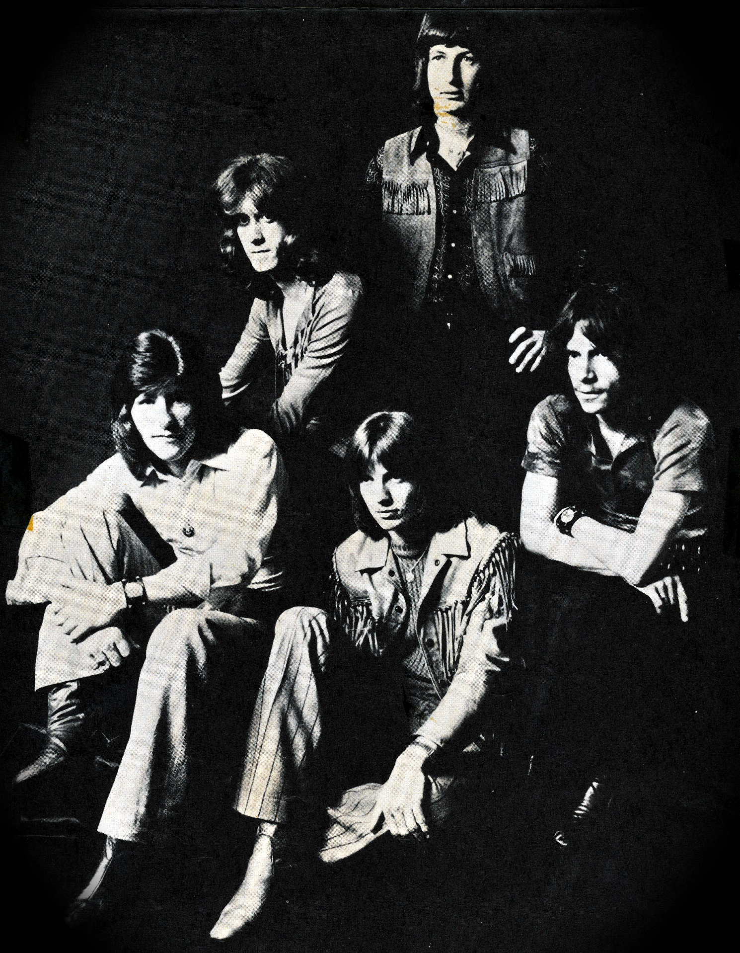 Heatwave 5-piece pop group 1970.